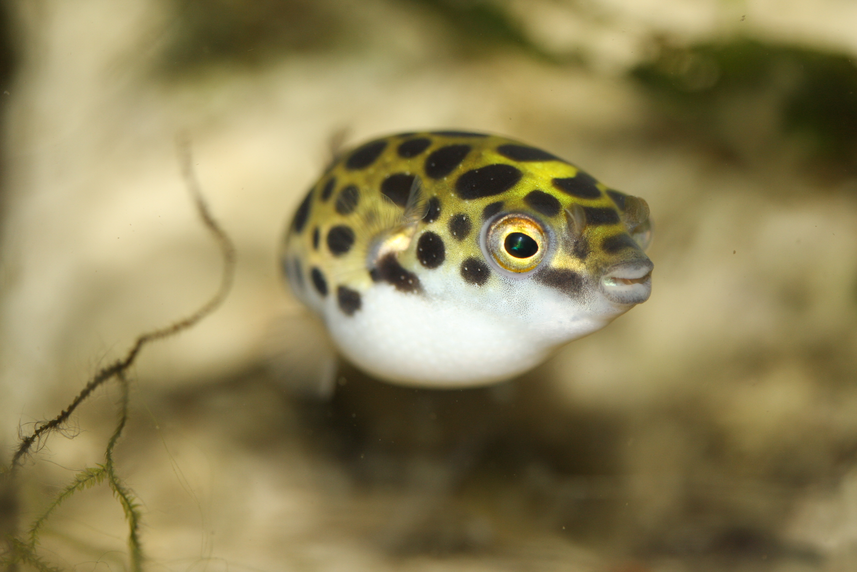 Tetraodon nigroviridis - The green puffer fish